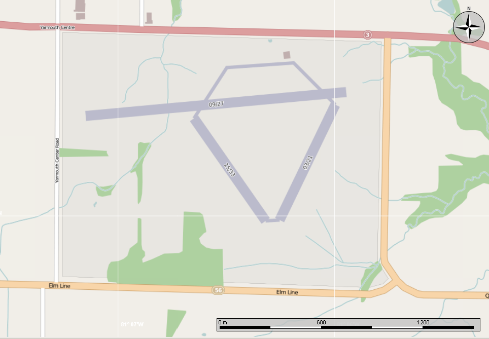 Open Street Map showing the St. Thomas (Ontario) Municipal Airport. Cropped from the Marble program, using GIMP.